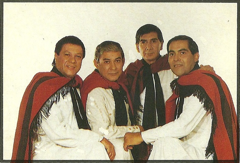 borders